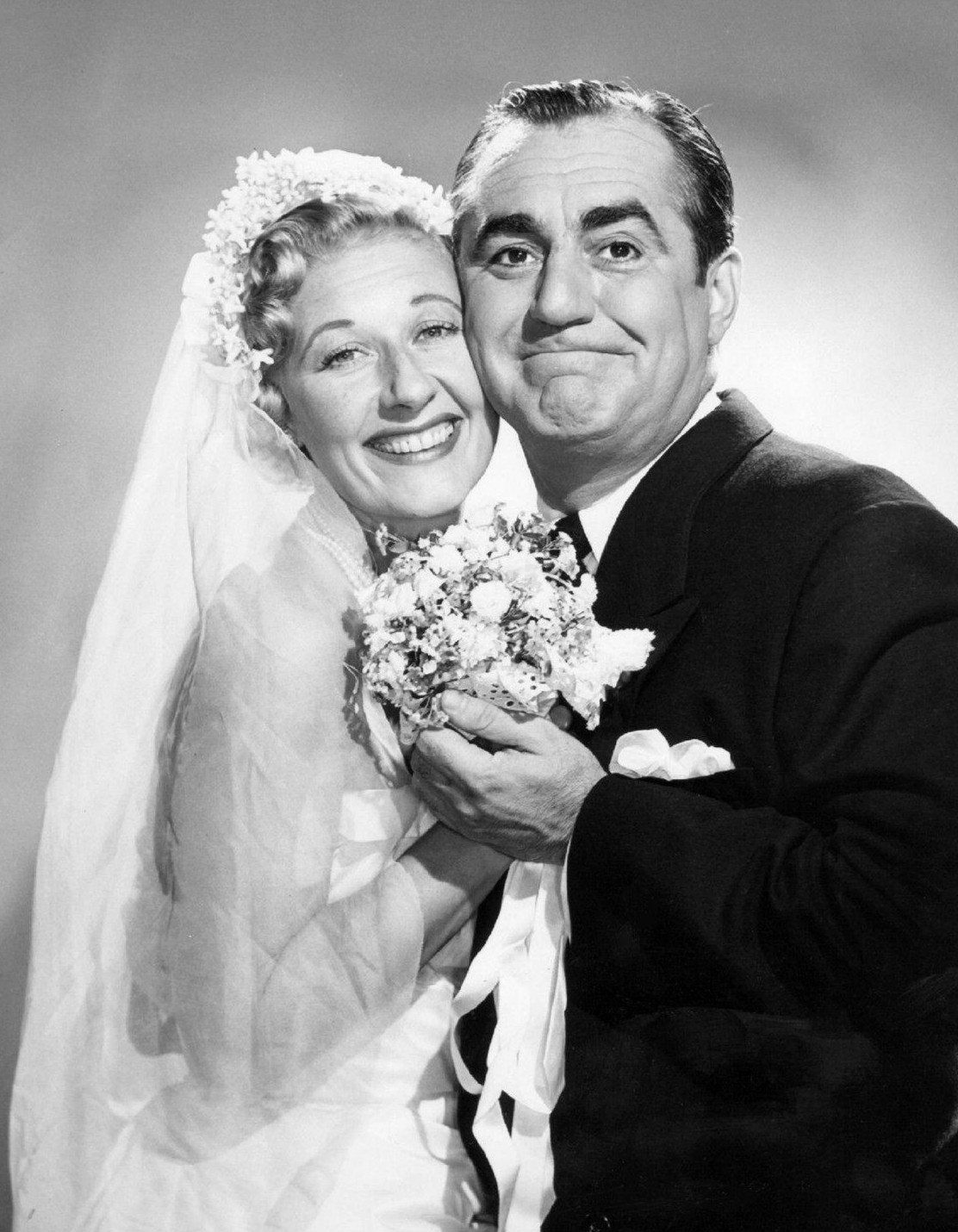 Photo of Jim Backus and Joan Davis as Joan and Bradley Stevens from the premiere of I Married Joan.